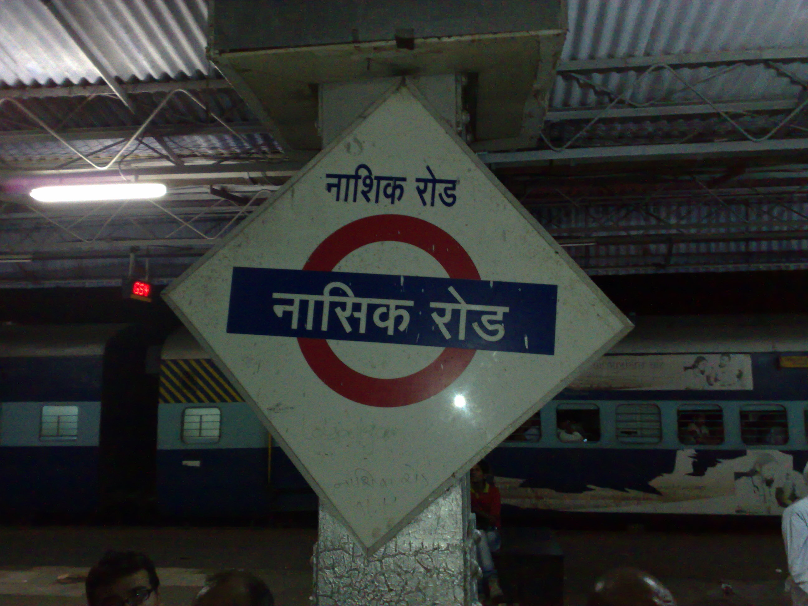 Nasik Road station